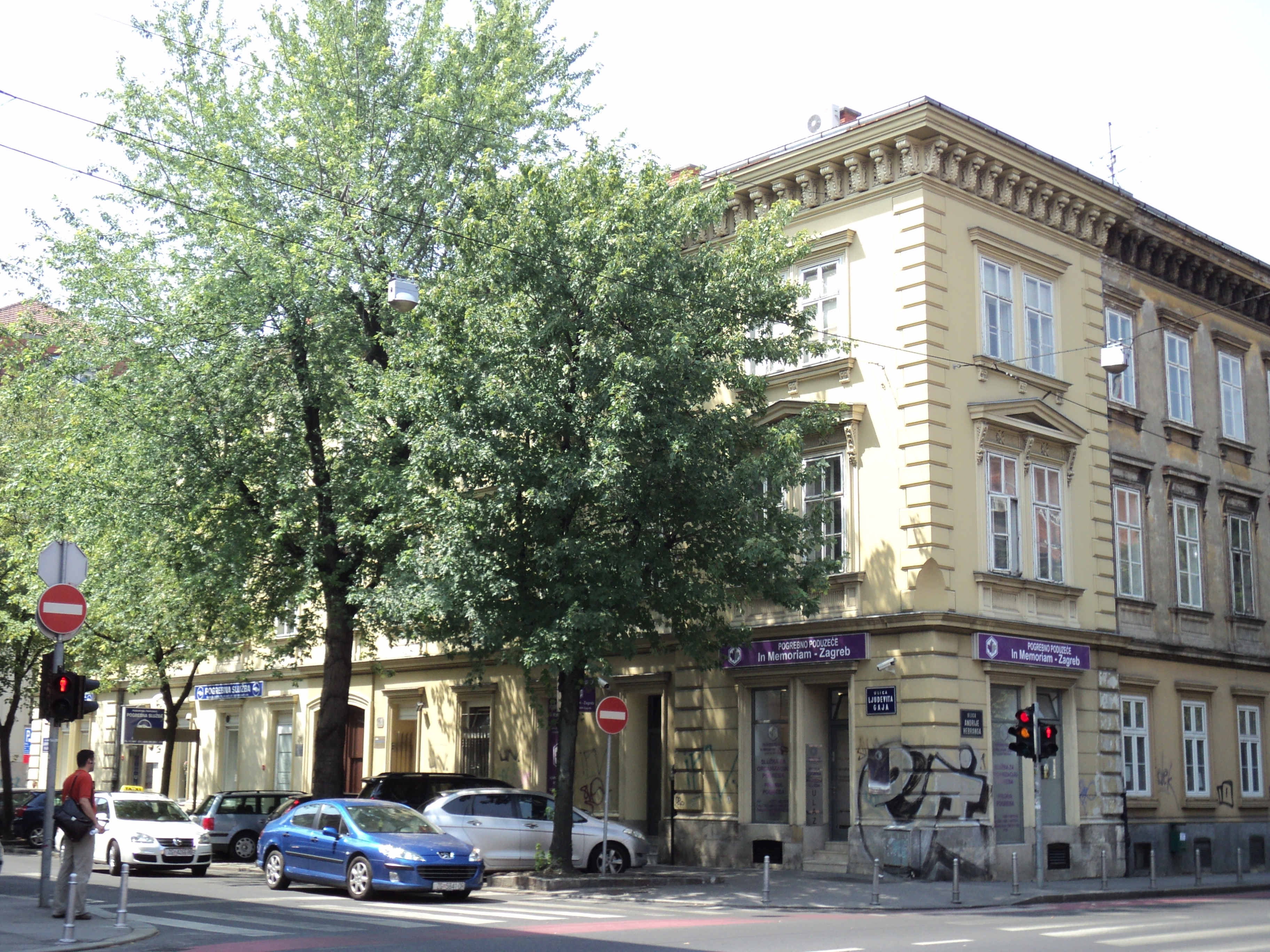 Building in Ljudevit Gaj Street 28, Zagreb.